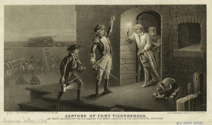 1875 engraving depicting the capture of Fort Ticonderoga by Ethan Allen on May 10, 1775